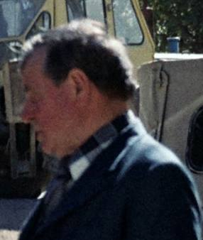 I. G. Gerasimov at a conference to mark the 30th anniversary of the Tian Shan Physics and Geography Station, Pokrovka village, Kyrgyz SSR.